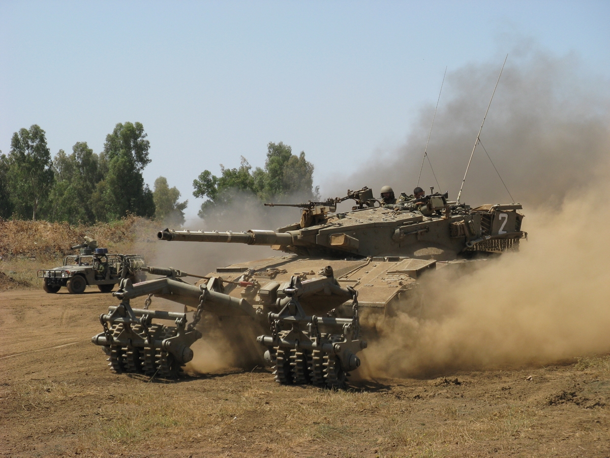 IDF Merkava Mk2 tank with Magov Nochri